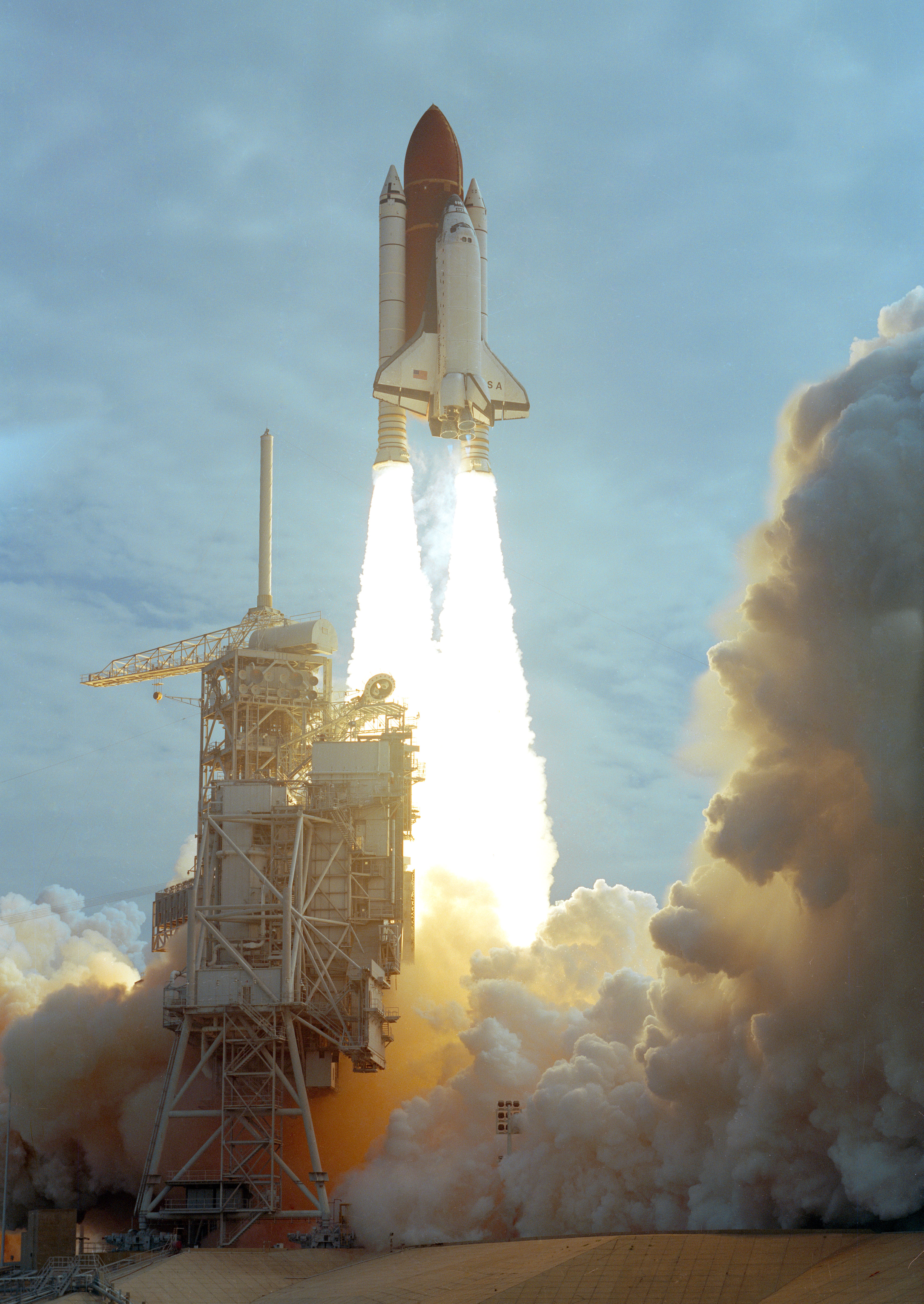 STS-40 Columbia, Orbiter Vehicle (OV) 102, lifts off from the Kennedy Space Center (KSC) launch complex (LC) pad with its Spacelab Life Sciences 1(SLS-1) payload at 9:24:51 am (Eastern Daylight Time (EDT)). OV-102 is almost clear of the launch tower as an exhaust cloud formed by the solid rocket boosters (SRBs) and space shuttle main engine (SSME) firings covers the mobile launcher platform. The fixed service structure (FSS) and retracted rotating service structure (RSS) are visible at the bottom of the frame.